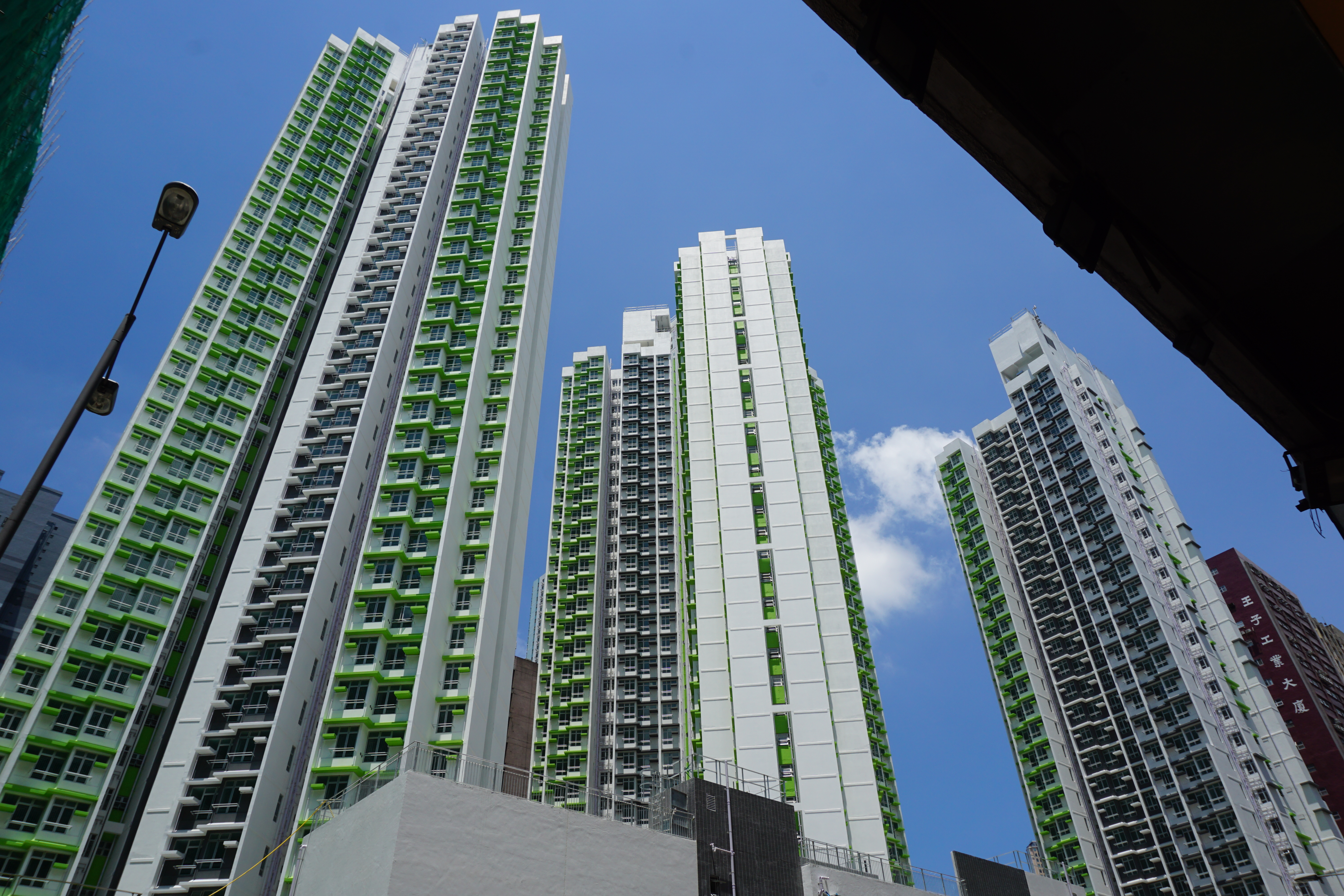 Sheung Chui Court in Tsuen Wan, Hong Kong.